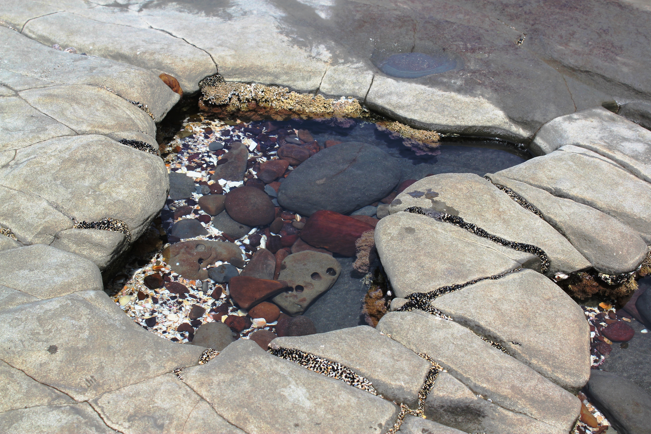 A rock pool at Granny's Bay, Auckland, New Zealand.